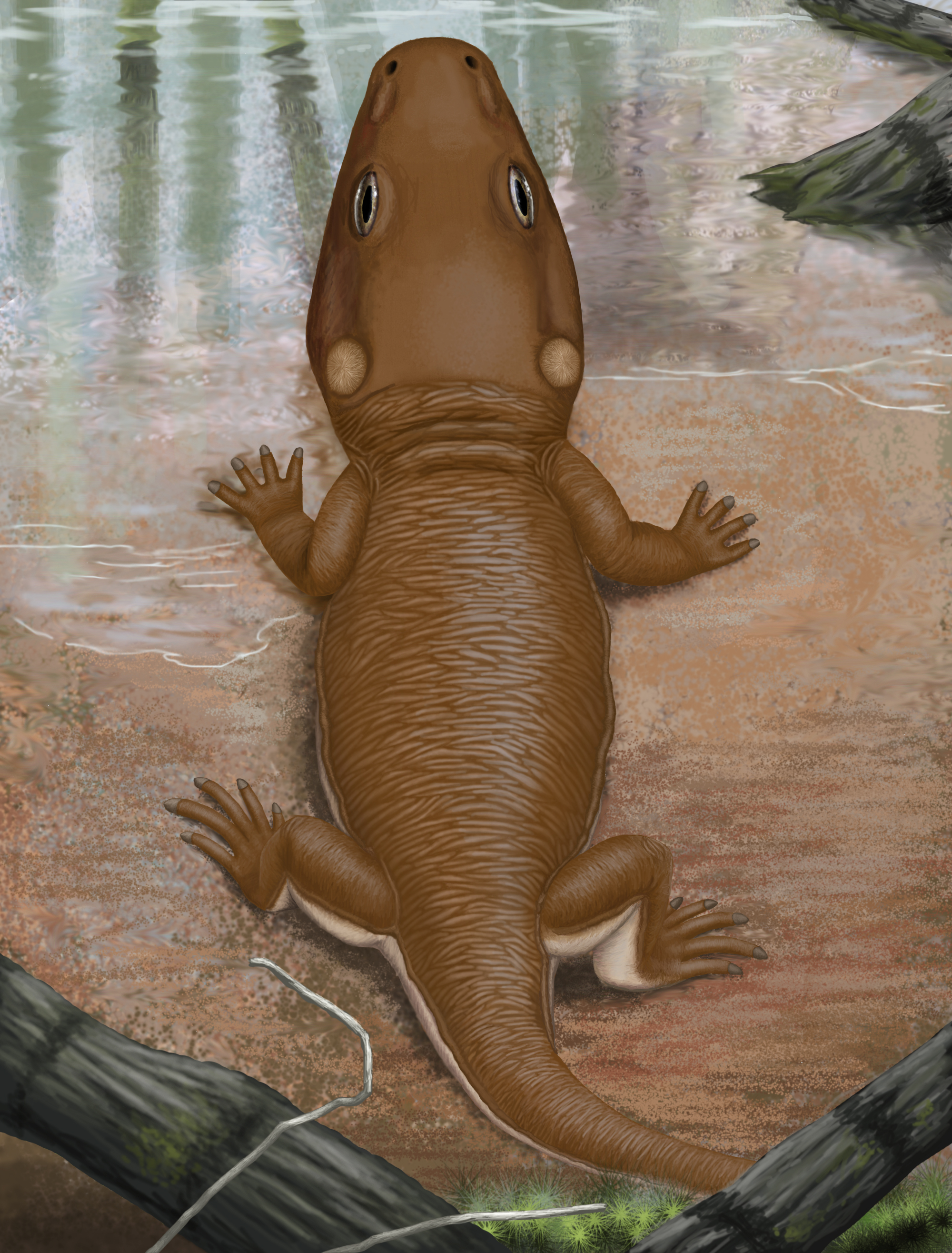 Life restoration of Tambachia trogallas. Based on figures 5, 8, and 9 of "A new trematopid amphibian from the Lower Permian of central Germany" by Stuart S. Sumida, David S. Berman, and Thomas Martens (Palaeontology 41 (4): 605-629).